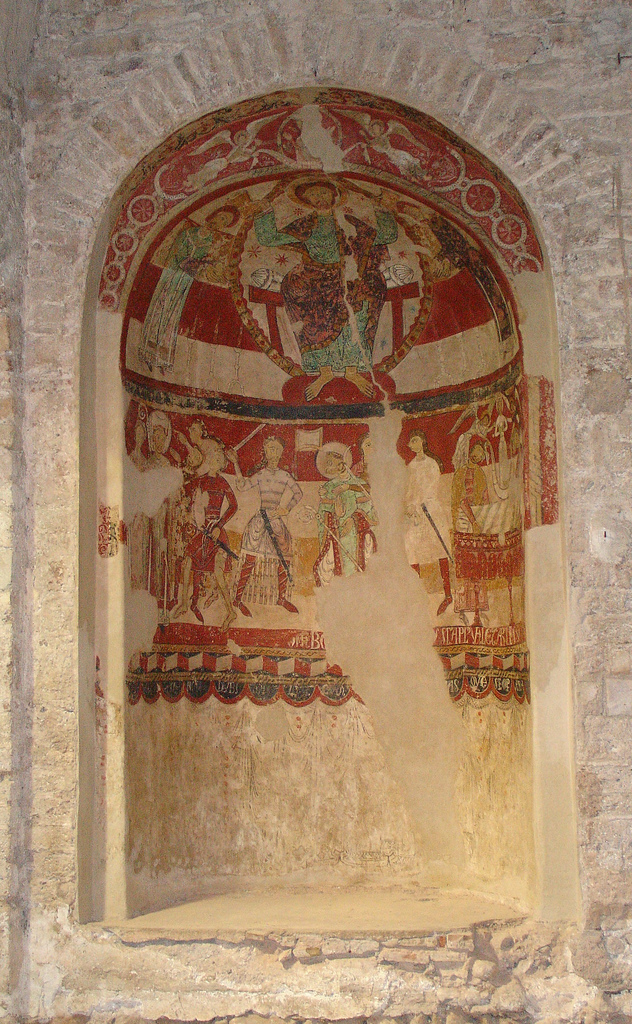 St. Thomas Becket's consecration, death and burial, at wall paintings in Santa Maria de Terrassa (Terrassa, Spain), romanesque frescoes, ca. 1180